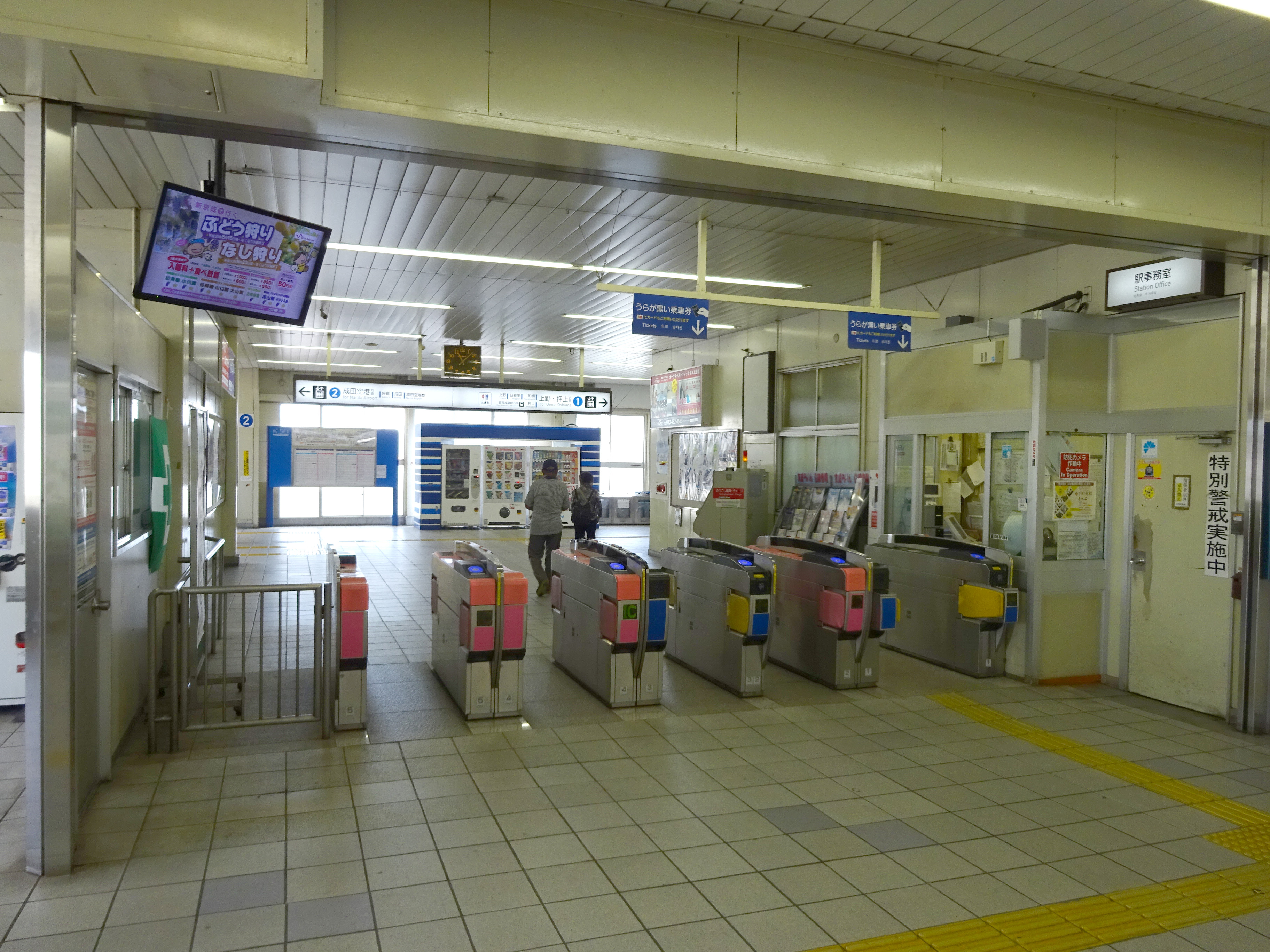 Ticket barriers of Shizu Station